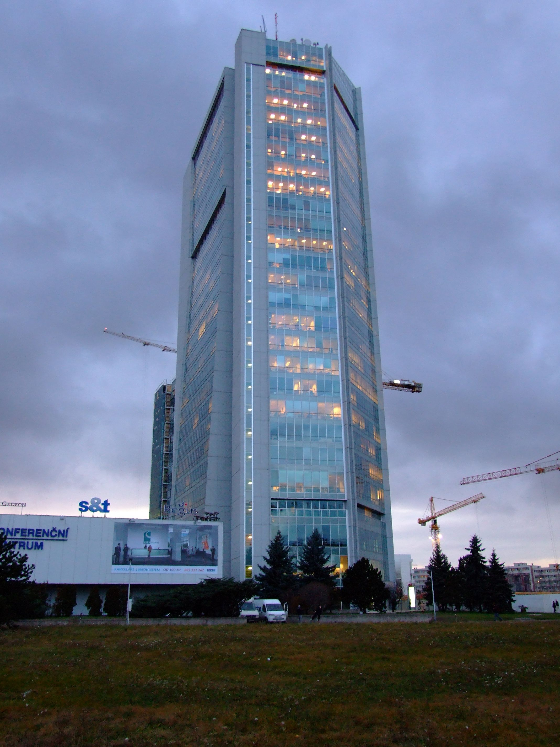 High-rise building in Prague-Pankrác